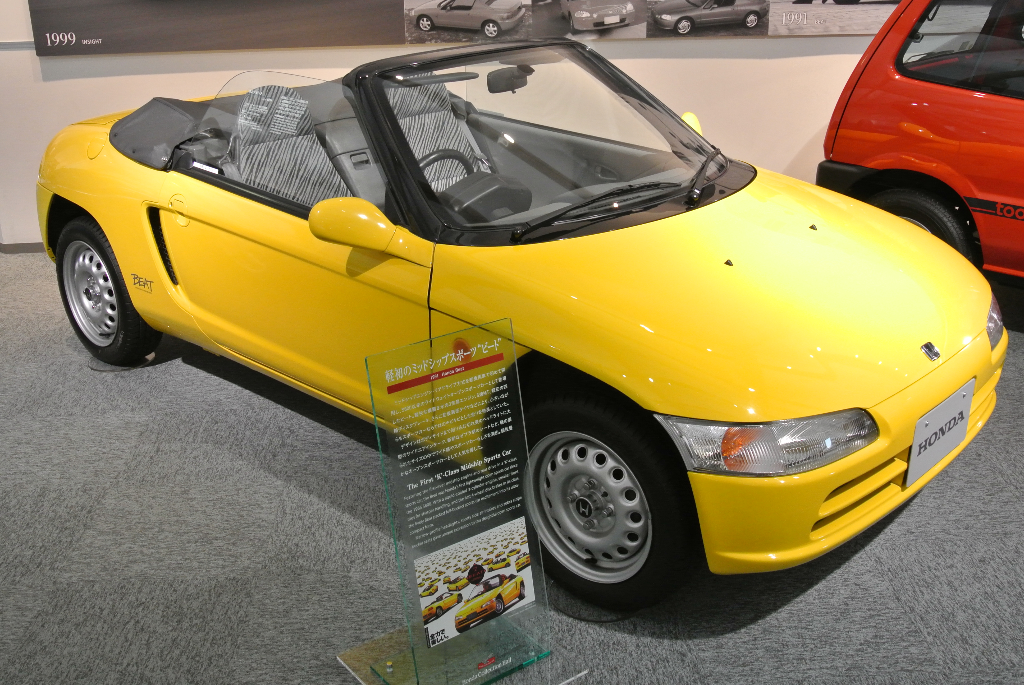 Honda BEAT in the Honda Collection Hall.